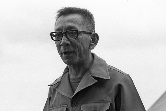 Colonel Sudsai Hasdin (สุตสาย หัสดิน) of the Thai Internal Security Operations Command (ISOC) in 1974, by Norman Peagam